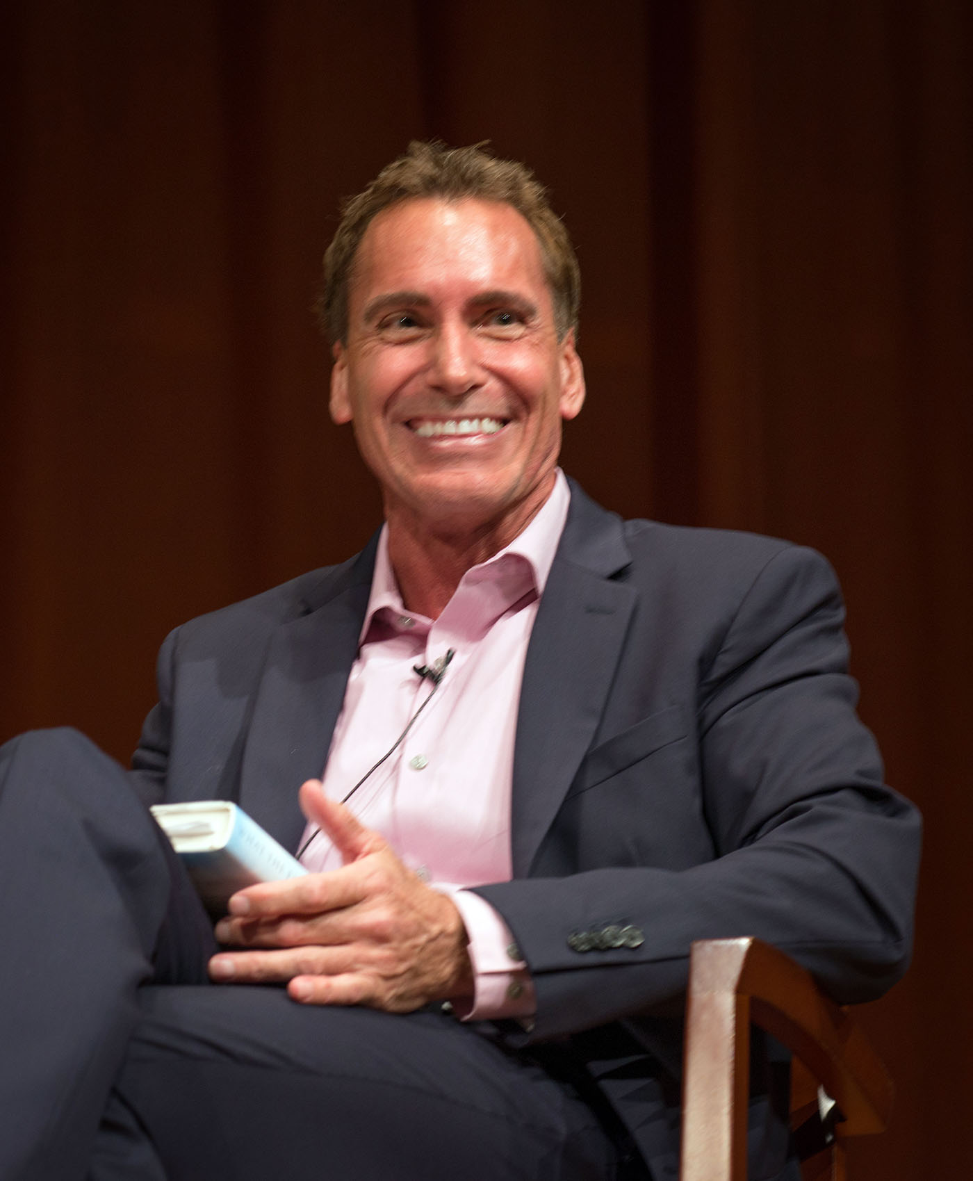 Chris Kolb in 2018